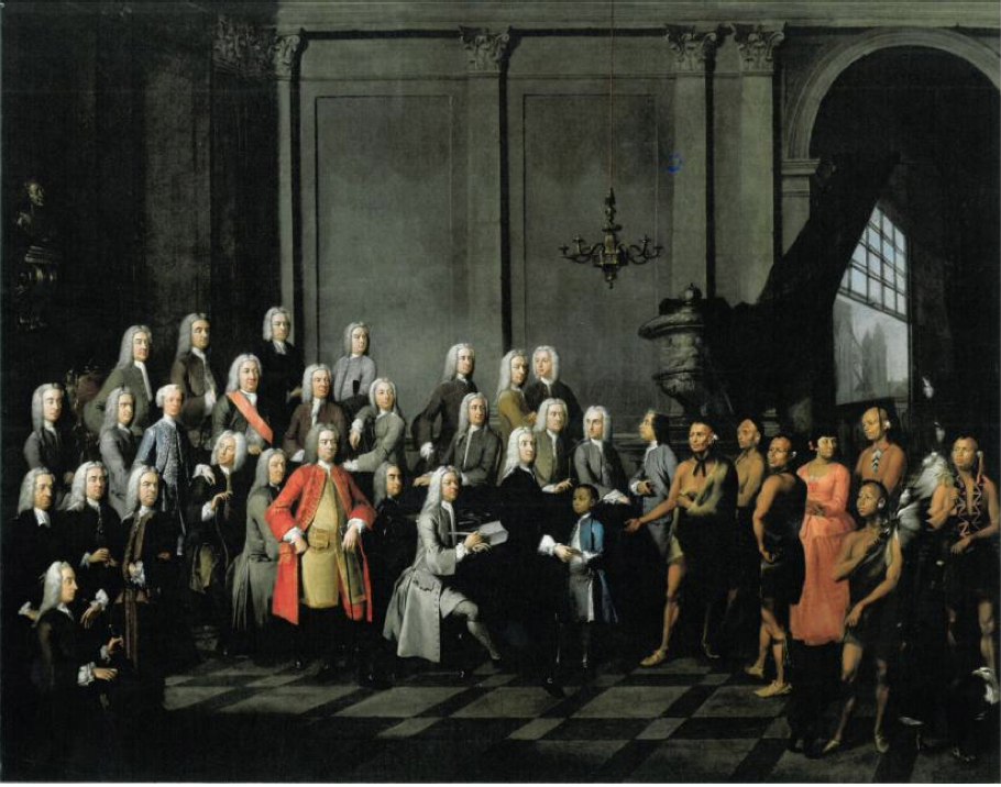 William Verelst painting of Tomochichi and Georgia Trustees. Audience Given by the Trustees of Georgia to a Delegation of Creek Indians